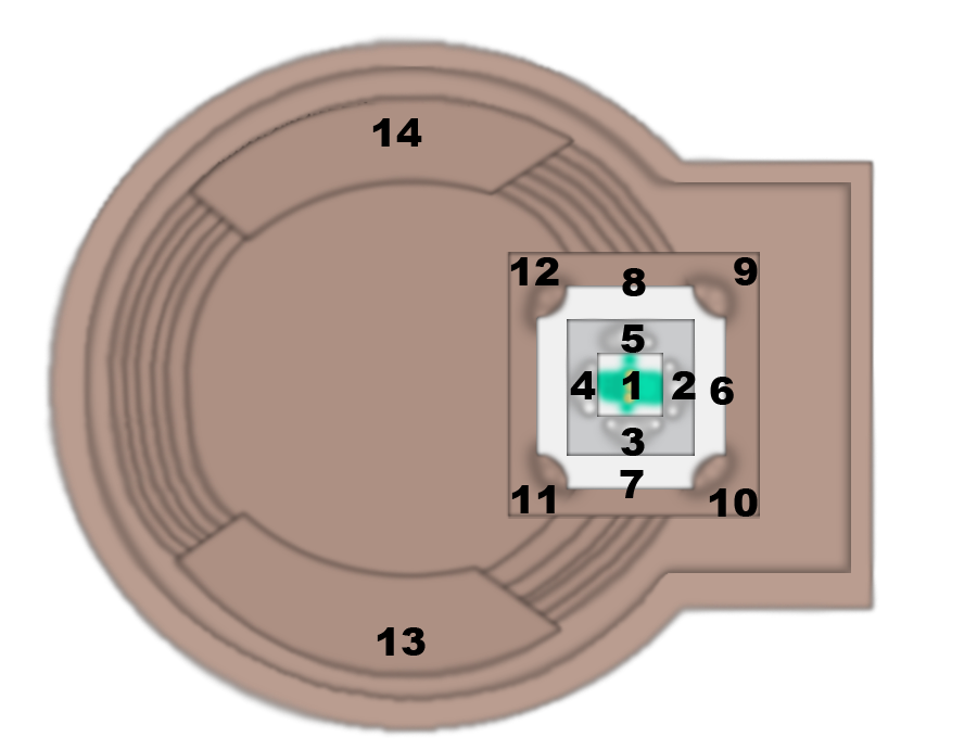 Diagram of Freedom Monument (Riga) (viewed from top), it shows were different parts of the monument are located. 1 - Brīvība/Liberty. Gray sculpture group: 2 - Latvija/Latvia, 3 - Lācplēsis (Latvian epic hero), 4 - Važu rāvēji/Chain breakers, 5 - Vaidelotis (ancient pagan priest). Reliefs on panels: 6 - Tēvzemei un Brīvībai/For Fatherland and Freedom, 7 - 1905/1905. gads, 8 - Cīņa pret bermontiešiem uz Dzelzs tilta/The Battle against the Bermontians on the Iron Bridge. Red sculpture group: 9 - Tēvzemes sargi/Guards of the Fatherland, 10 - Darbs/Work, 11 - Gara darbinieki/Scholars, 12 - Ģimene/Family. Reliefs on sides: 13 - Latvju strēlnieki/Latvian riflemen, 14 - Latvju tauta - dziedātāja/Latvian people: the Singers. Please note that this drawing is not to scale.